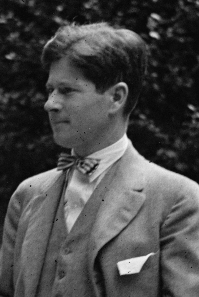 This is an image of Philip Fox La Follette cropped from a larger image produced by the National Photo Company that shows him standing with his brother Robert M. La Follette, Jr. and two other men. The La Follettes' father, Senator Robert M. La Follette, Sr., died the previous day. The image has been adjusted for brightness and contrast.